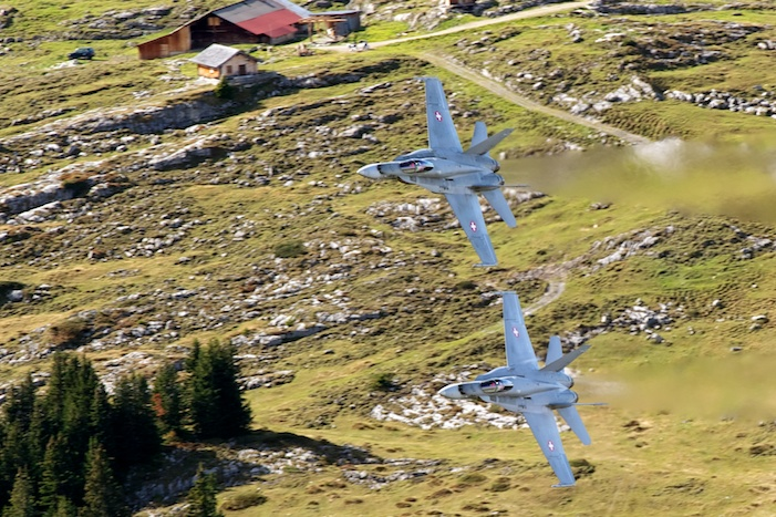 Two F/A 18 C, Swiss Air Force, Axalp, Switzerland